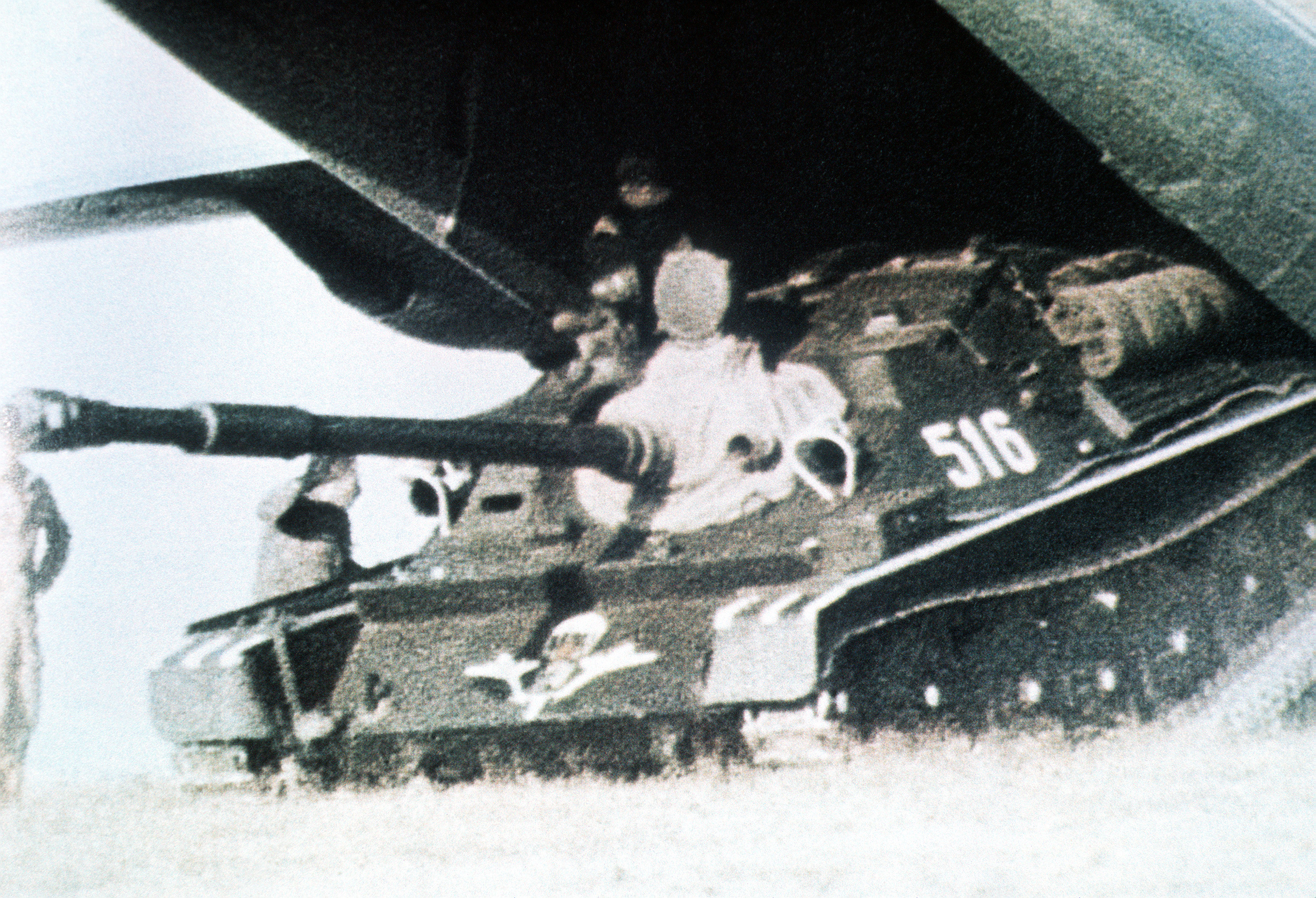 A Soviet ASU-85 self-propelled anti-tank gun is unloaded from an An-12 Cub aircraft. Exact Date Shot Unknown.